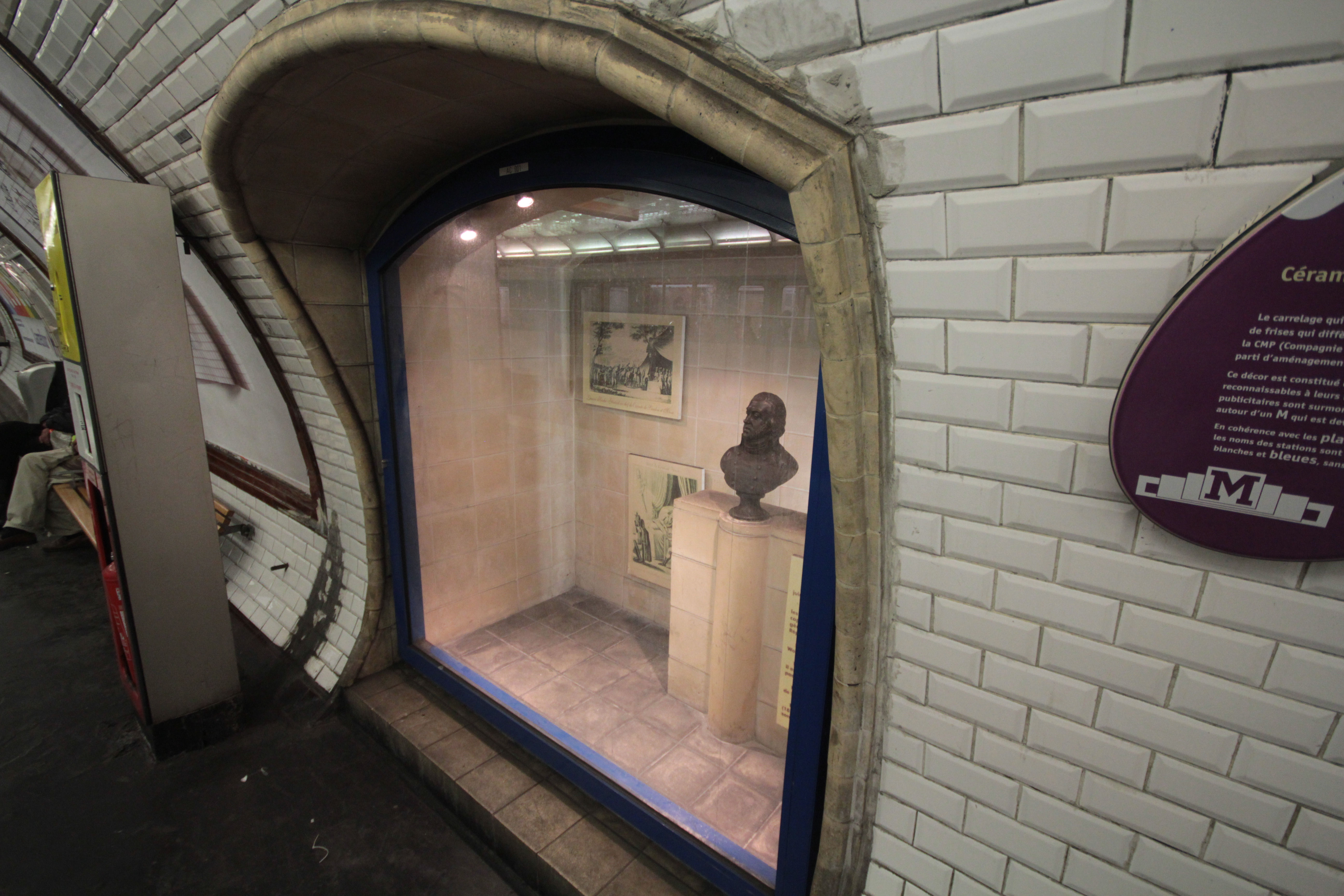 Metro station Hoche on Parisian metro line 5